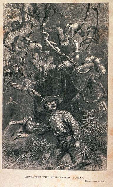 Henry Walter Bates nun gravado de The Naturalist on the River Amazons (1863)